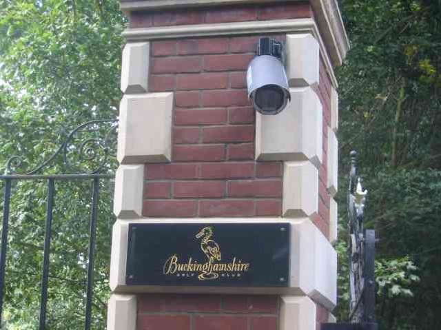 Buckinghamshire Golf Club. The elegance of the plaque meant it was worth recording.